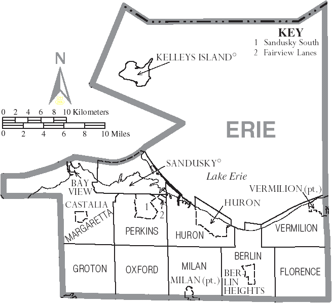 Map of Erie County, Ohio, United States with township and municipal boundaries